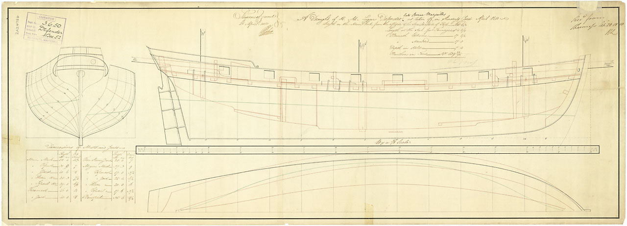 DEFENDER 1809 lines